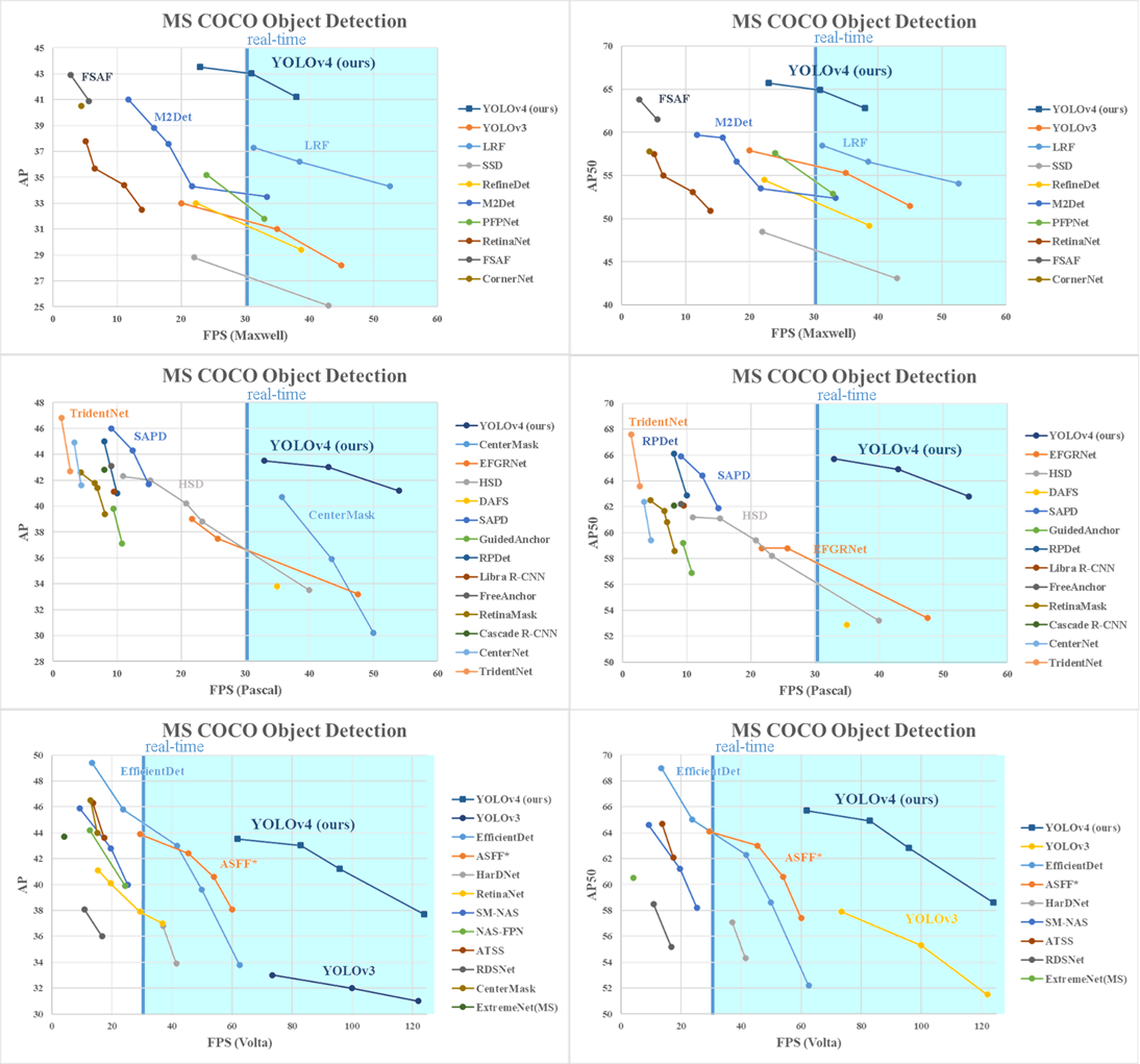 Comparison of the speed (Frames Per Second) and accuracy (AP / AP50) of different object detectors. All values ​​are posted in -articles by the authors of these algorithms. Some articles stated the FPS of their detectors for only one of the GPUs: Maxwell/Pascal/Volta. Accuracy is measured on Microsoft COCO testdev dataset